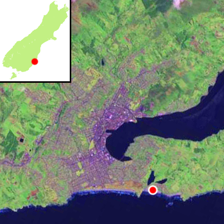 Map showing location of Ocean Grove, Dunedin, New Zealand. Based on NASA satellite map